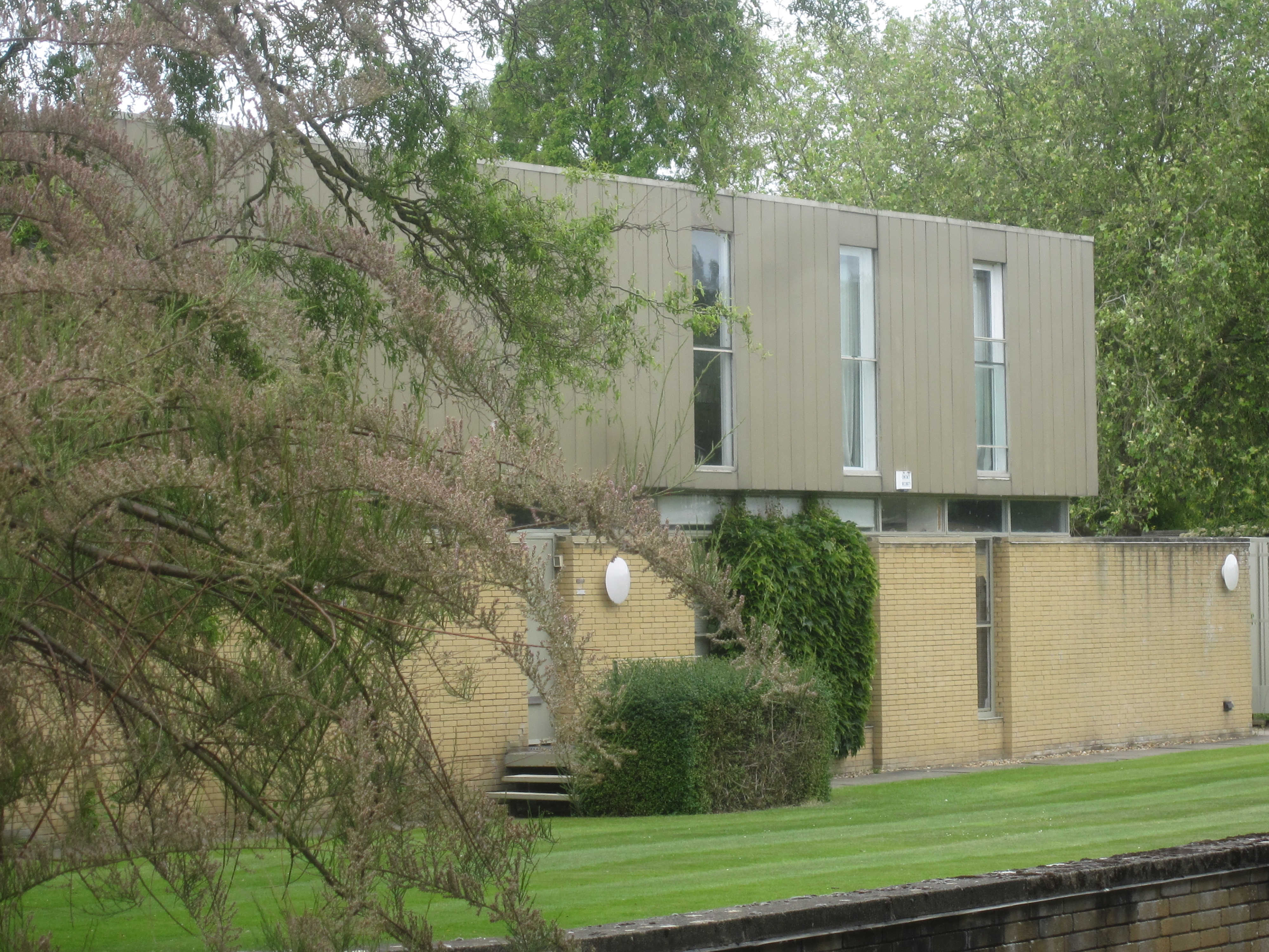 Master's house at St Catherine's College, Oxford, England, designed as part of the original college plan by Arne Jacobsen, built c.1961-66